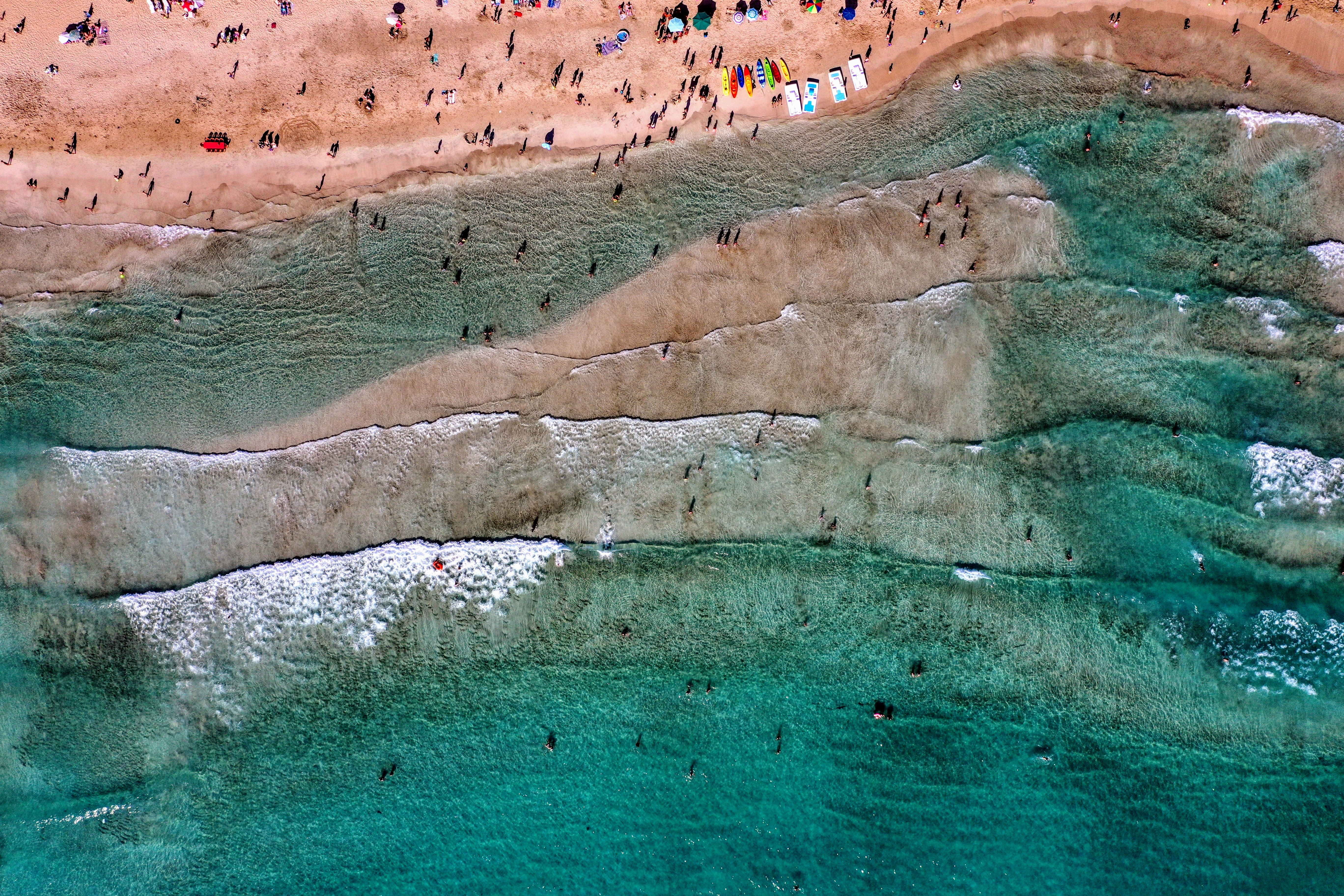 Tyre Public Beach done from a drone.